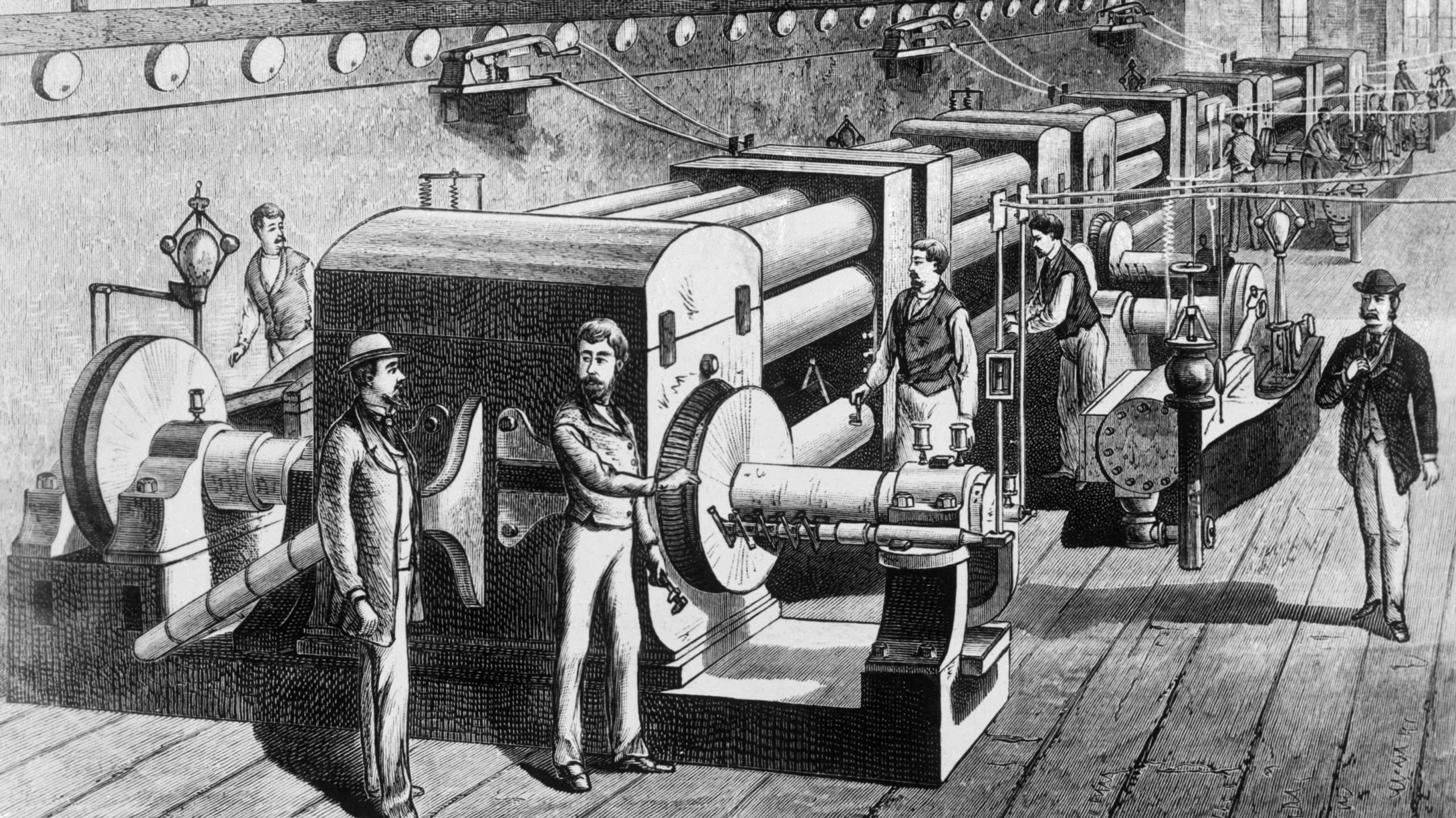 Edisons first central power plant for direct current (DC) in the Pearl Street, New York City